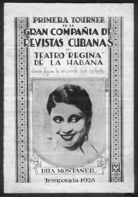 theatre program depicting Rita Montaner